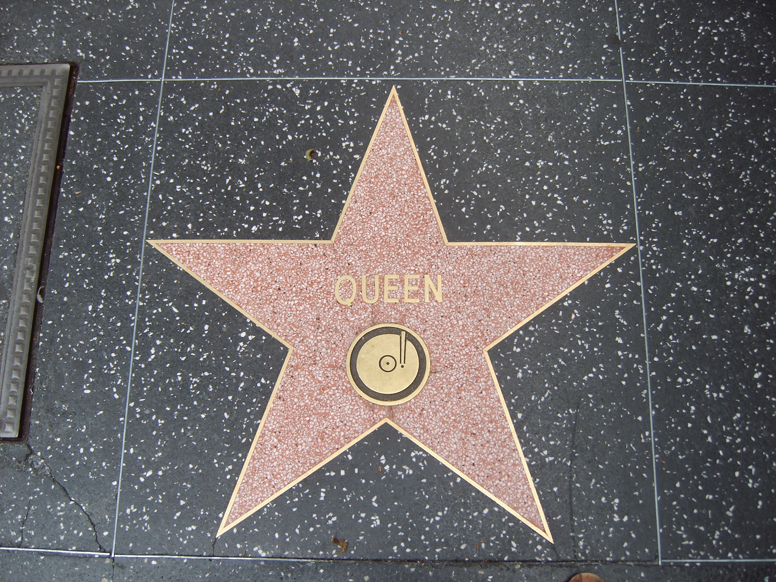 Queen star at Hollywood Walk of Fame.